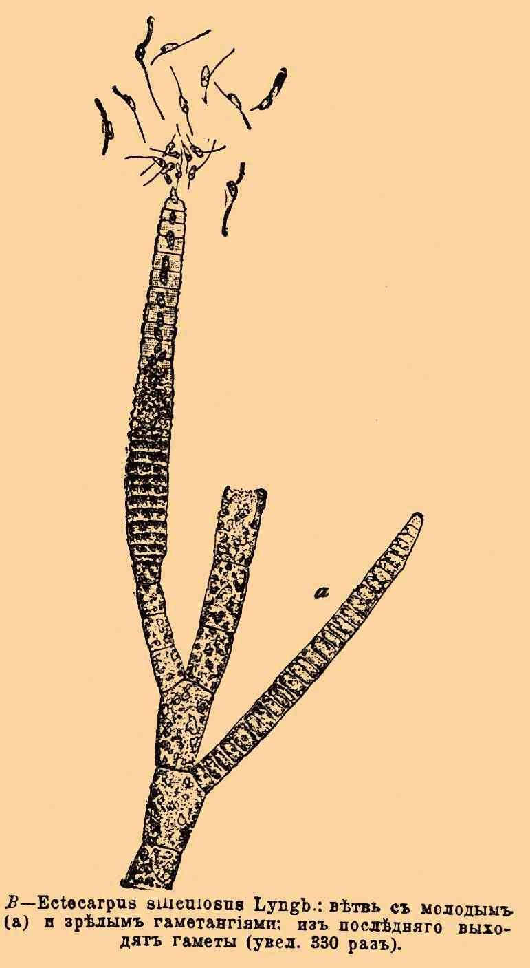 Ectocarpus siliculosus. From the Brockhaus and Efron Encyclopedic Dictionary (1890-1907)